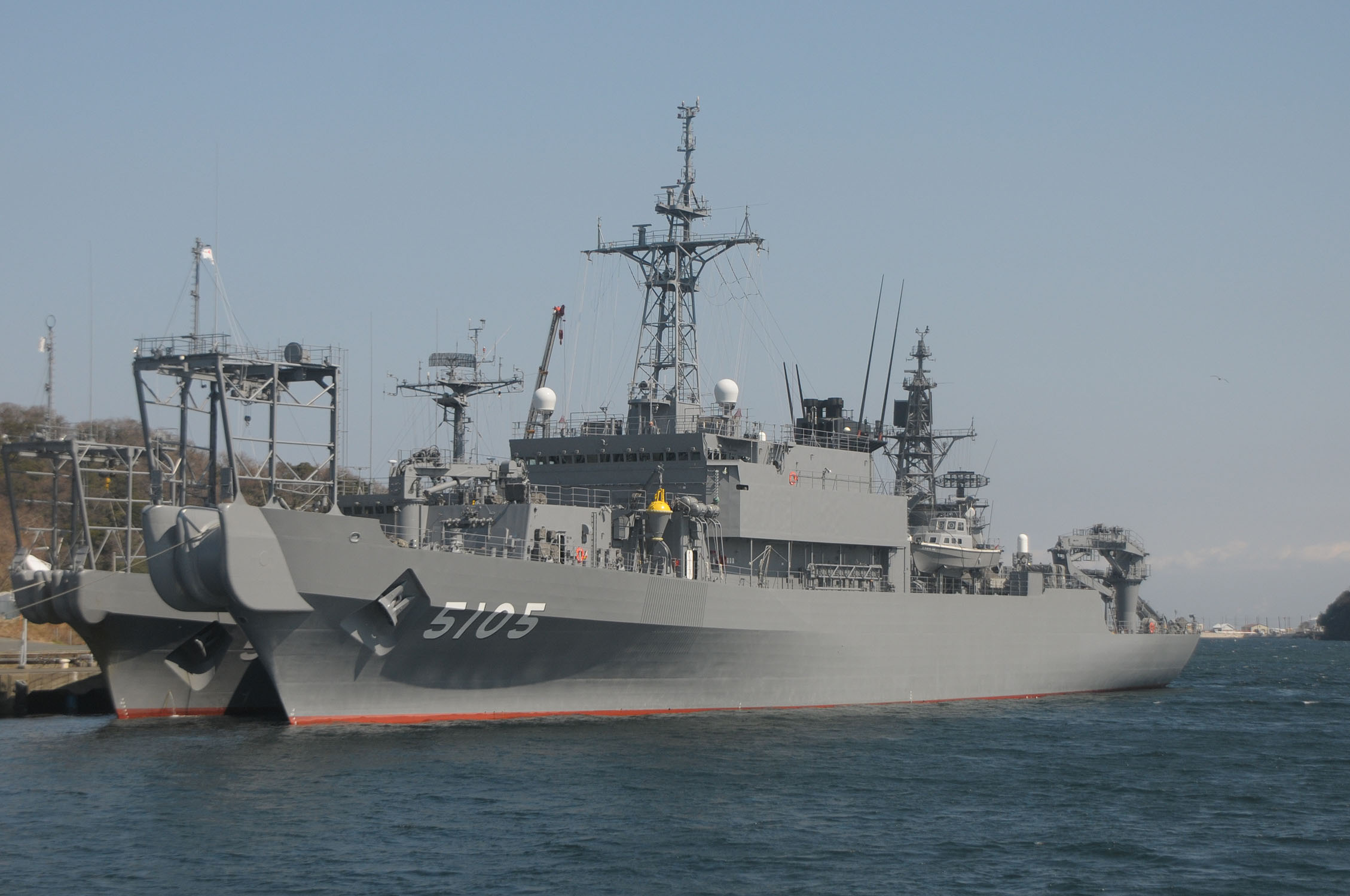 JS Nichinan (AGS-5105) moored at Yokosuka.Nikon D300